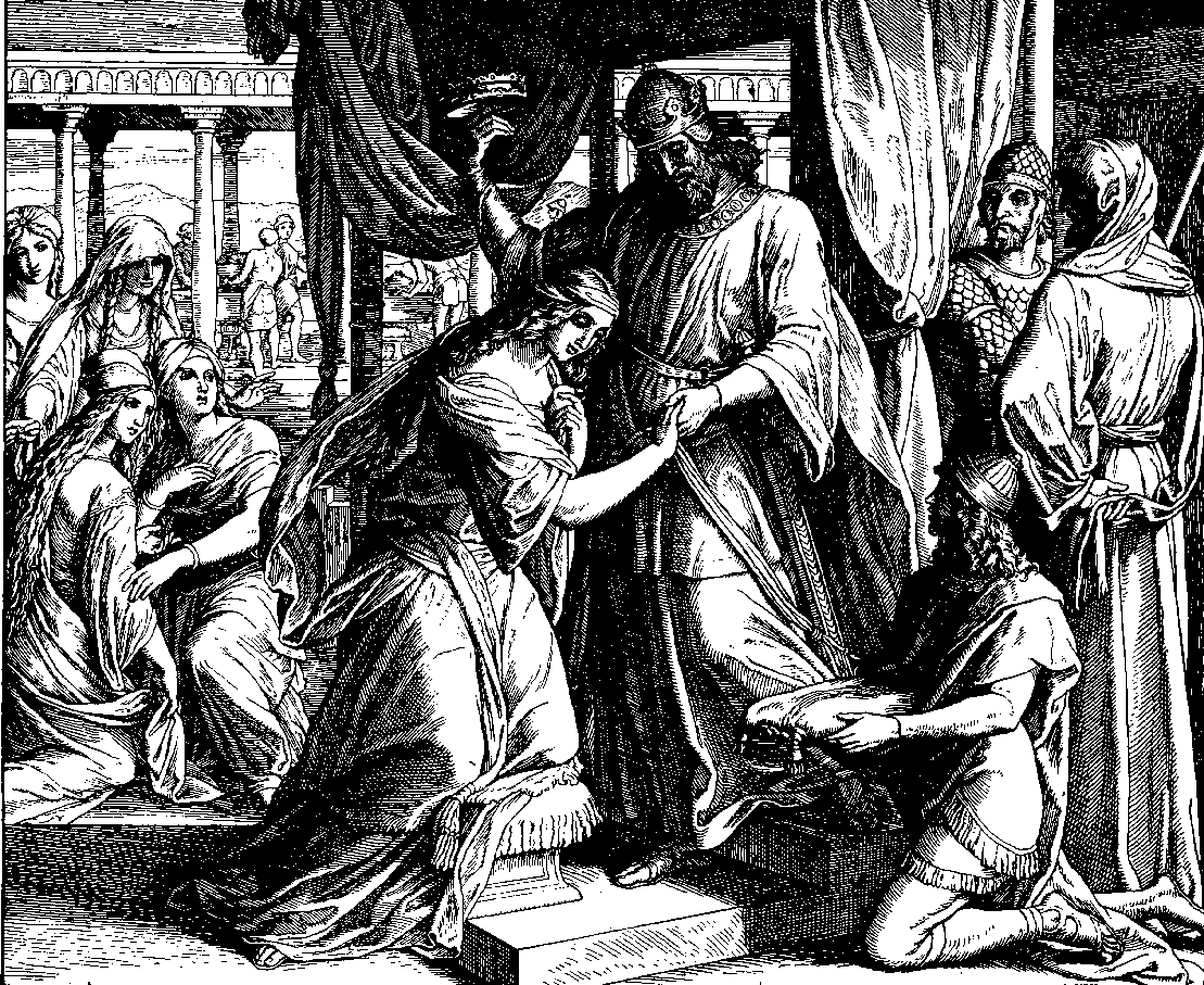 Woodcut for "Die Bibel in Bildern", 1860.